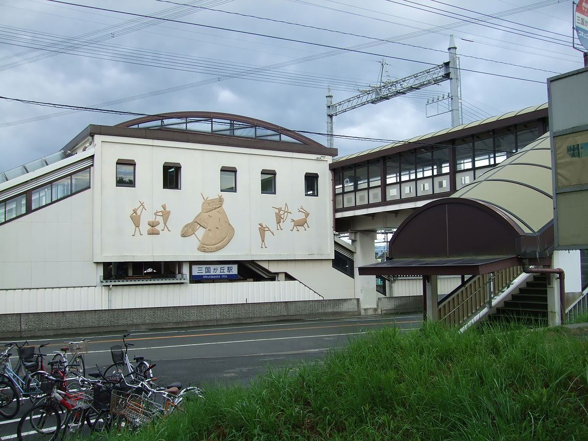 Mikunigaoka Station, Nishitetsu Tenjin Omuta Line.